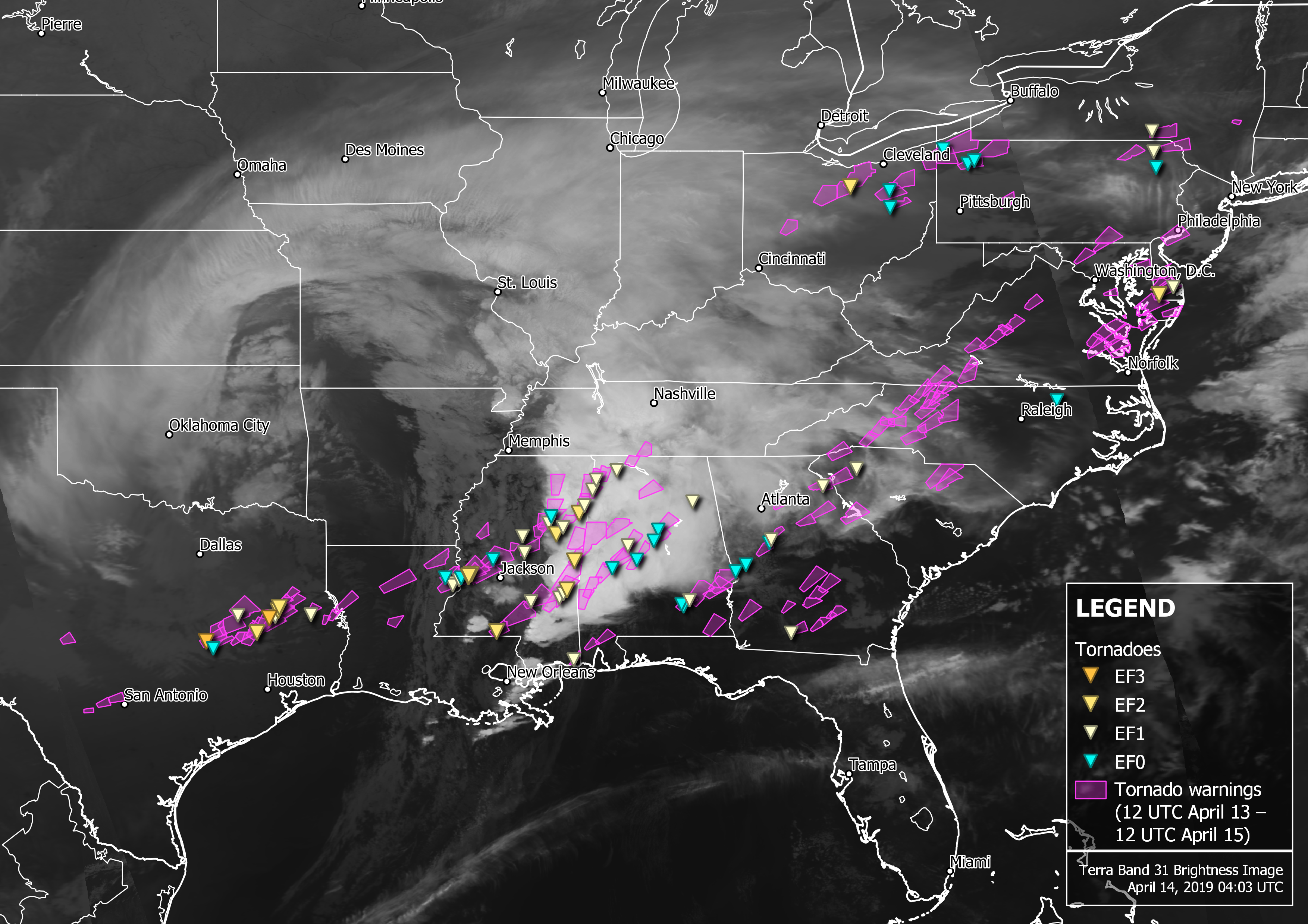 Map of tornado warnings issued by the National Weather Service between April 13 and April 15, 2019 over the eastern United States and tornadoes confirmed and surveyed by the National Weather Service overlaid on a Terra band 31 infrared brightness temperature image from 04:03 UTC on April 14. Map produced in QGIS with border outlines from the United States Census Bureau. National Weather Service warning outlines available from the Iowa Environmental Mesonet and tornado data available from the National Weather Service. Terra imagery from NASA Worldview.